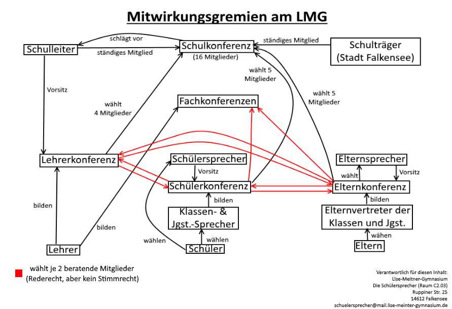 Mitwirkungsgremien an Brandenburger Schulen (kann leicht abweichen)